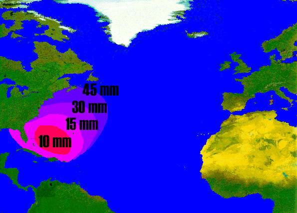 American eel migration (graph by Uwe Kils)